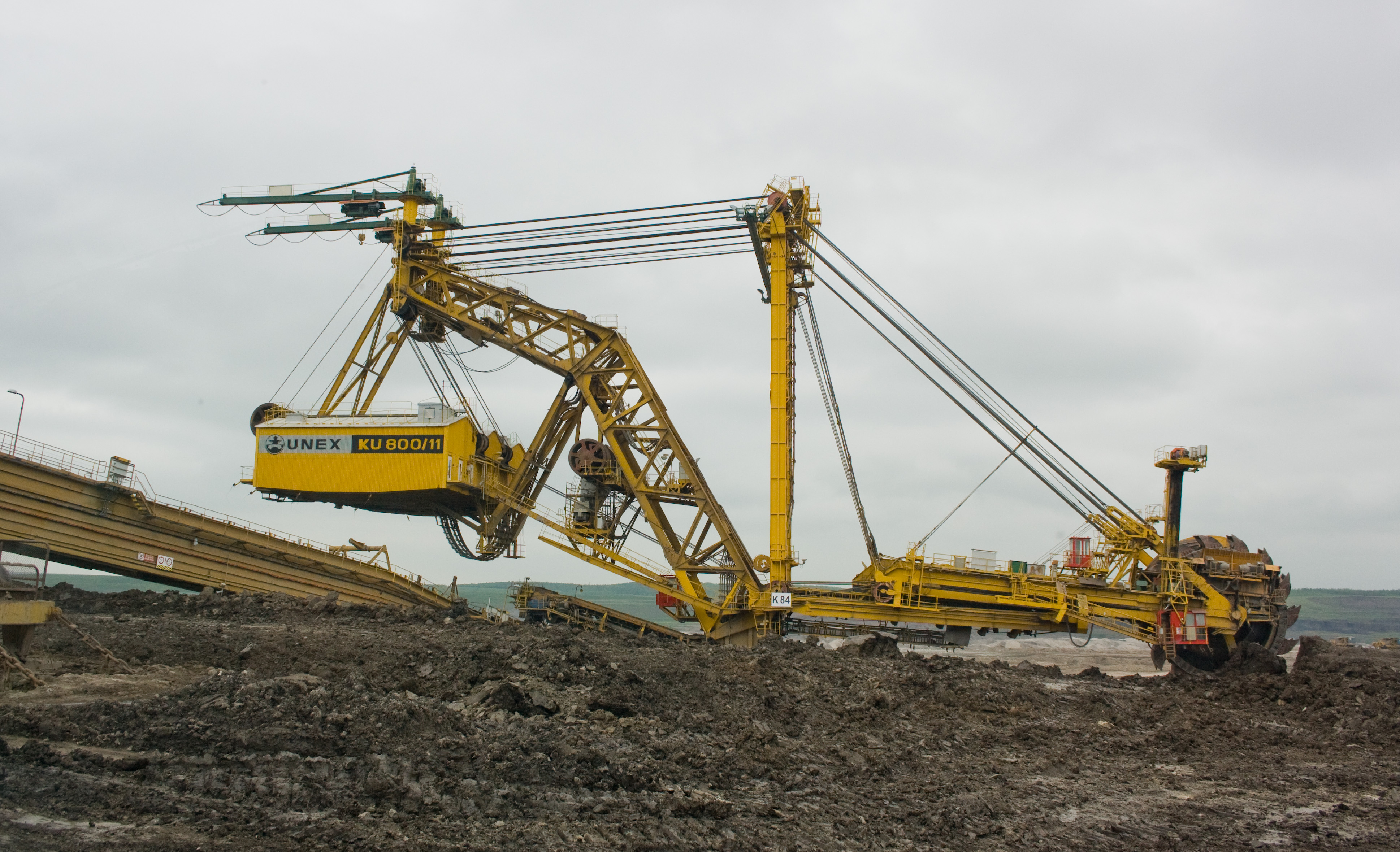 KU 800, Vršany quarry, North Bohemian Basin, Czech Republic Tato série fotografií vznikla za laskavého svolení společnosti CzechCoal